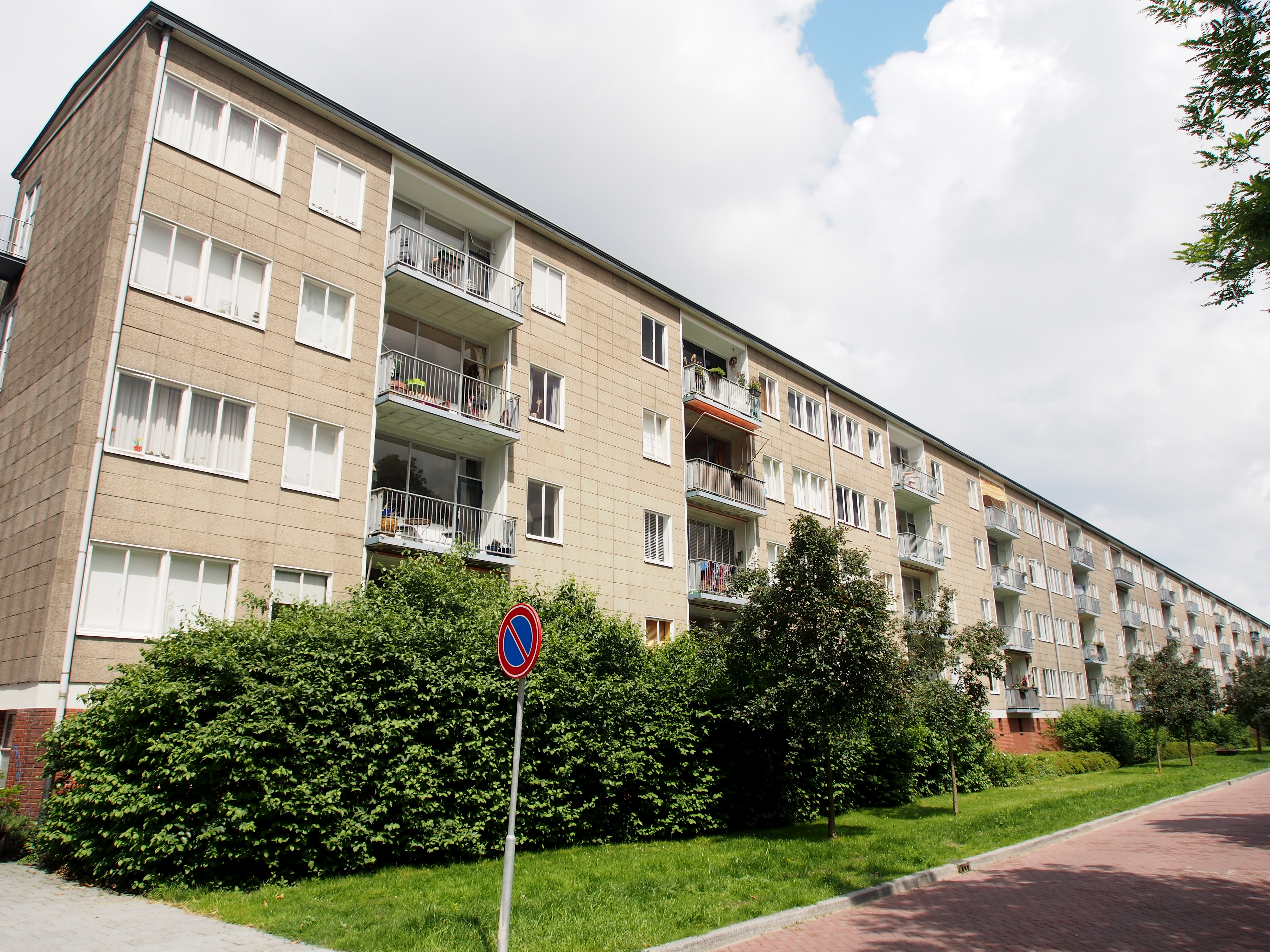 Photographed in Amsterdam.